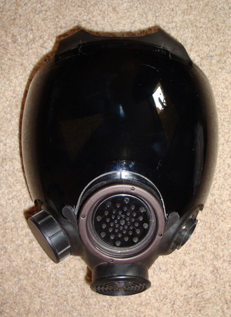 Gas Mask with tinted lens cover